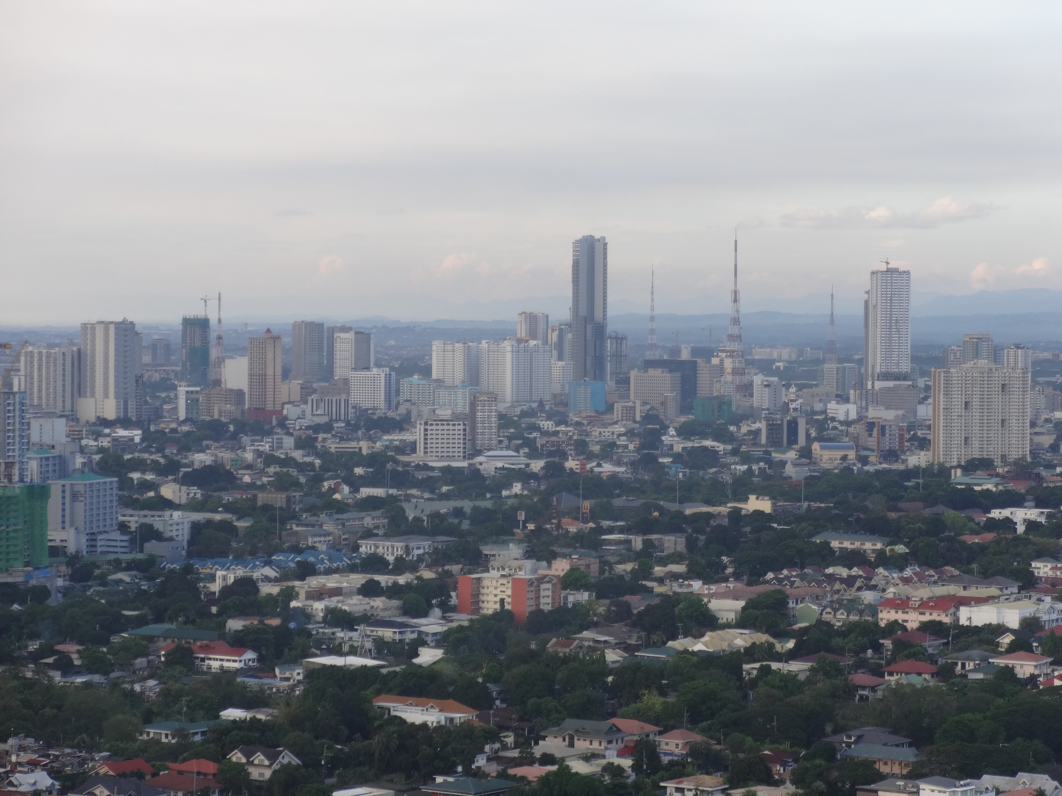 Quezon City skyline